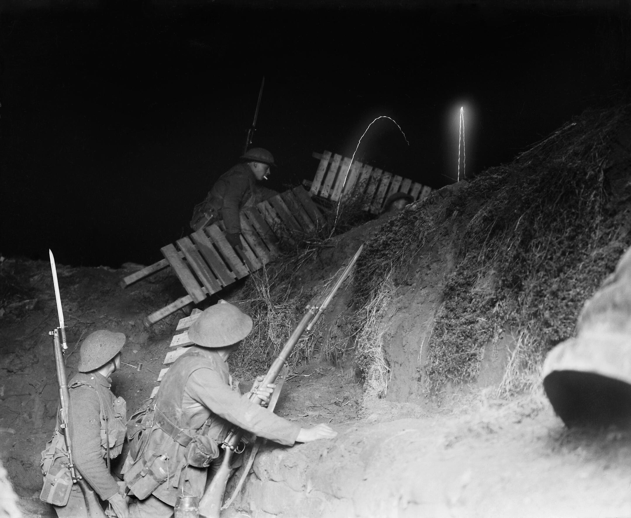 IWM caption : "Trench Layout and Conditions: A fatigue party carrying duckboards over a support line trench at night, Cambrai".